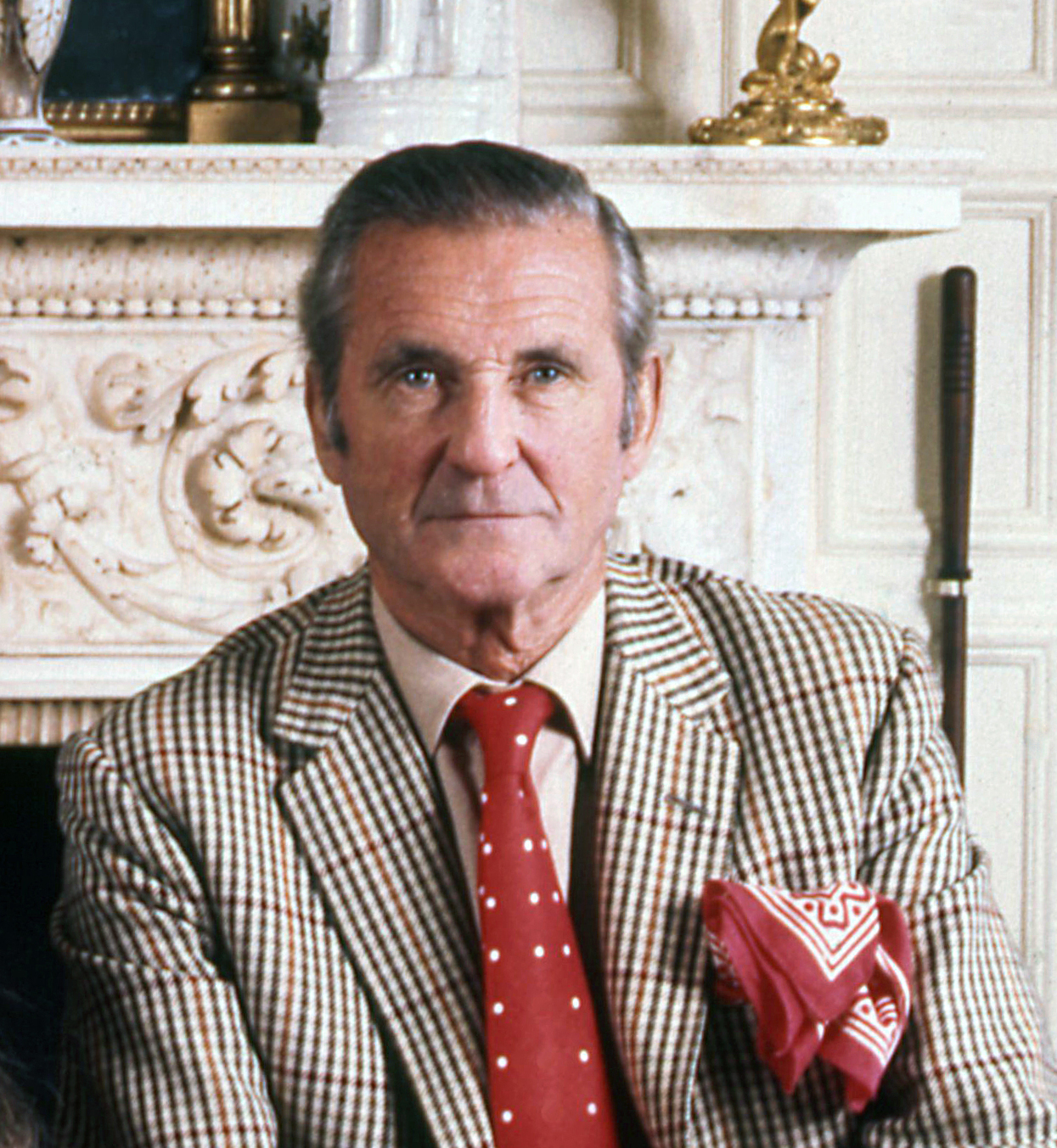 Henry Thynne 6th Marquess of Bath with second wife Virginia & daughter Lady Slivia. Taken at Jobs Mill, Wiltshire.